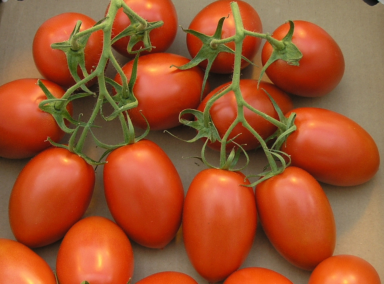 Tomatentyp Romana